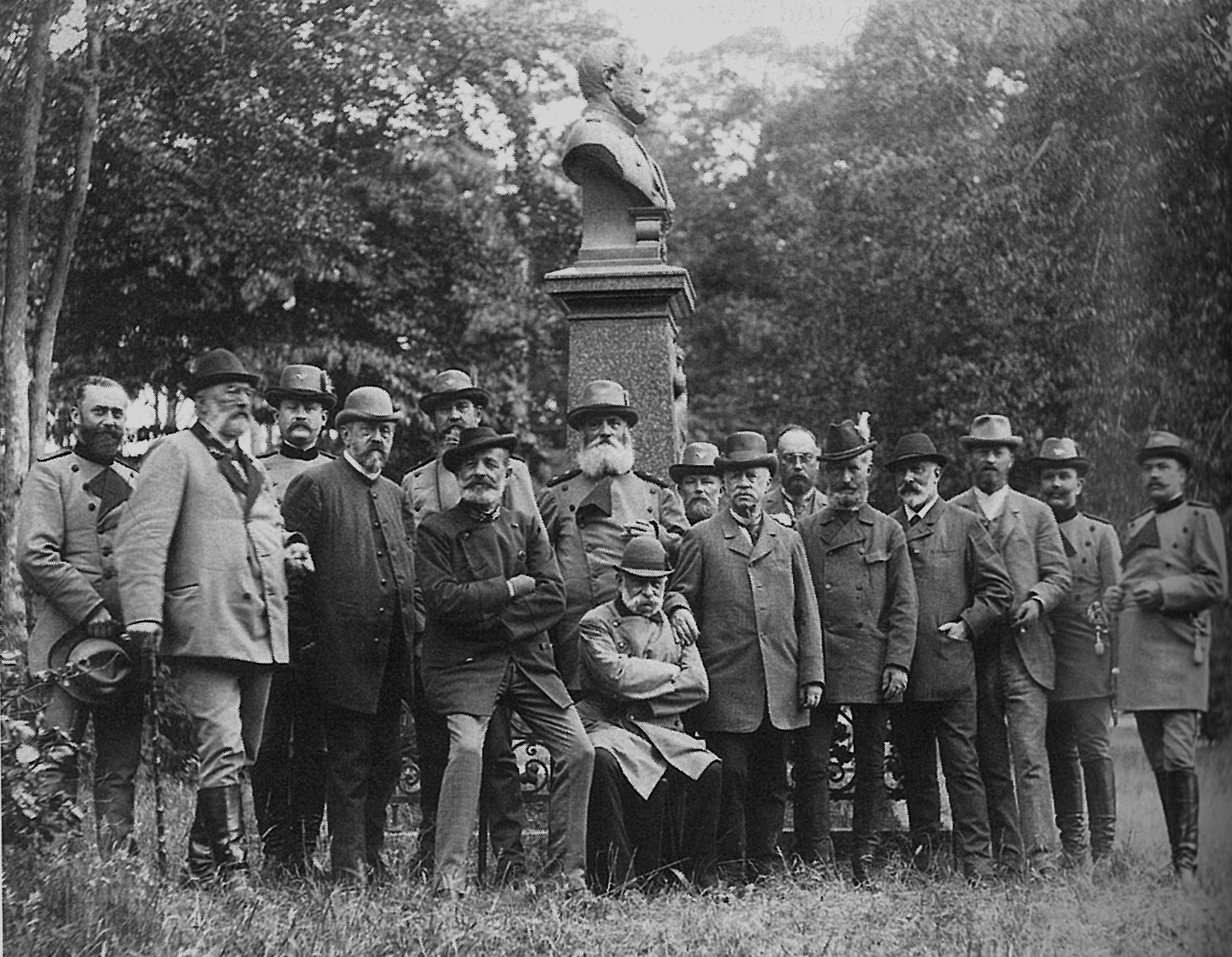 Participants of the 20th Meeting of the German forest research institutes with international participation; from the Hagen Memorial in Eberswalde in September, 1892. This committee decided on 19 September 1892 the establishment of the International Union of Forest Research Institutes.